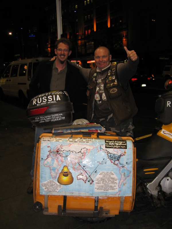 Vladimir Yarets (pictured, right) posting for a picture with David McNett (pictured, left) in downtown Auckland, New Zealand, 4 Apr 2007.